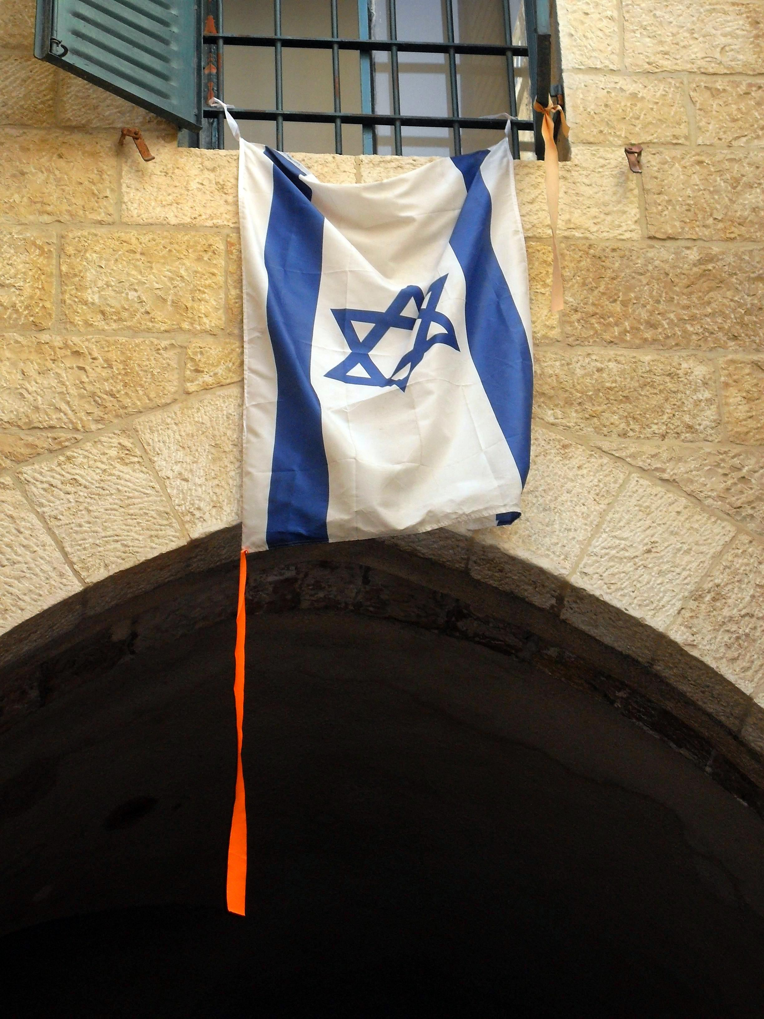 Old Jerusalem, Shonei Halachot road, israelian flag and orange ribbon. In Israel, orange ribbons indicate opposition to the Israel "disengagement" plan of 2004.